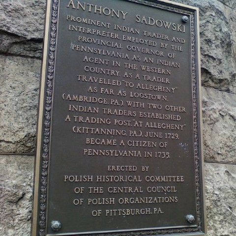 A historical marker on the exterior of the Allegheny County Courthouse in downtown Pittsburgh, Pennsylvania.